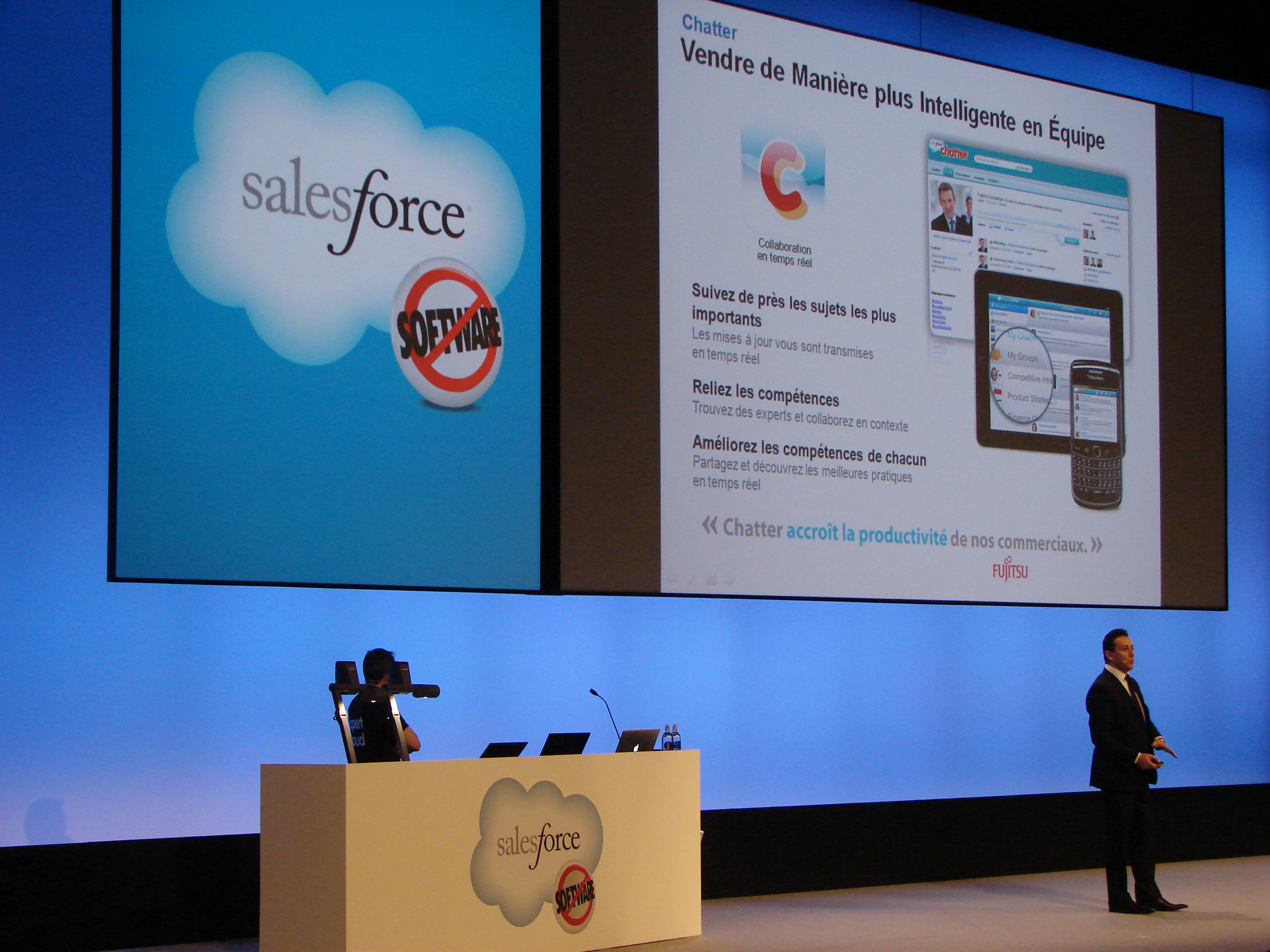 Introduction to